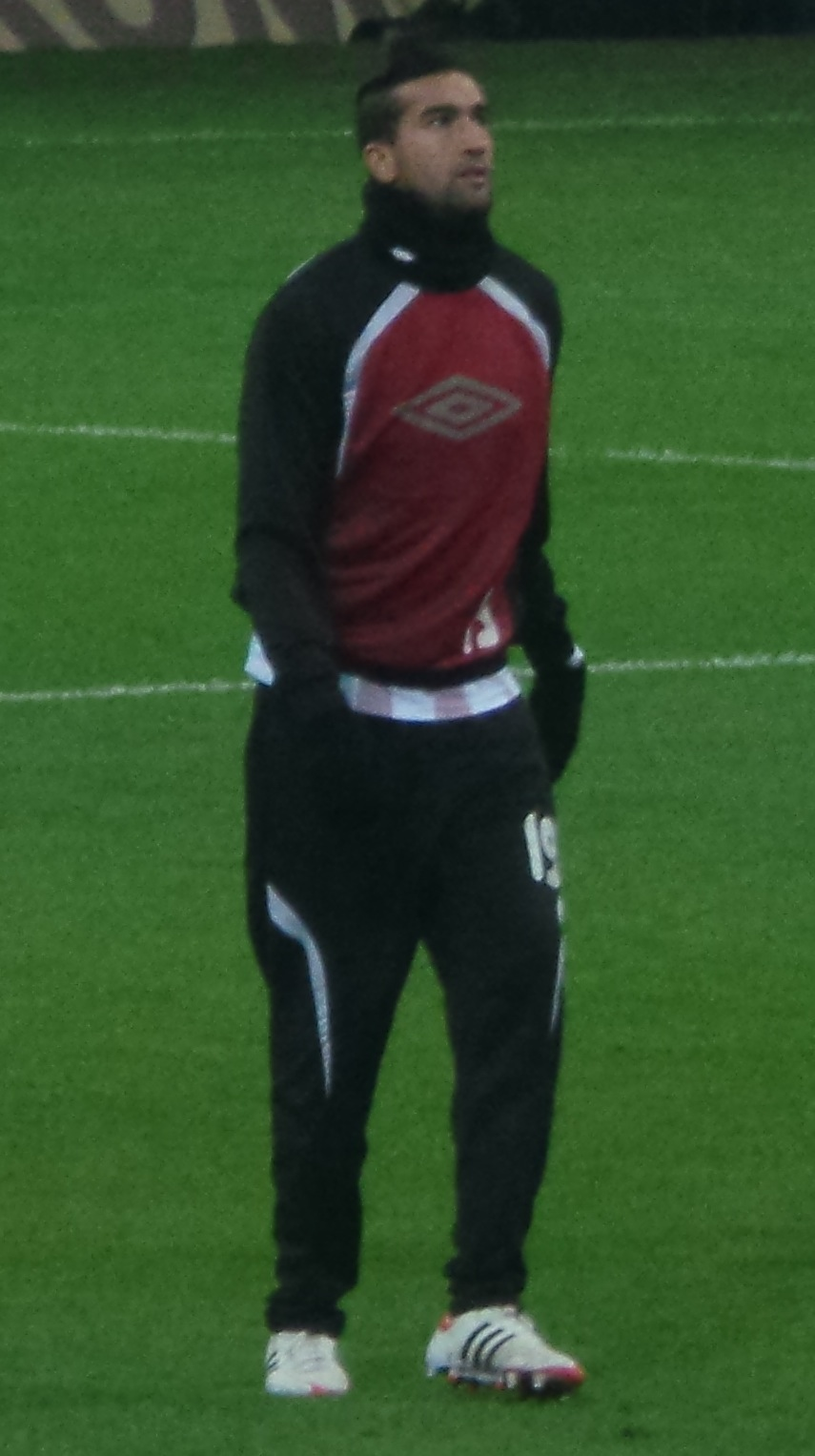 Youssouf Hadji